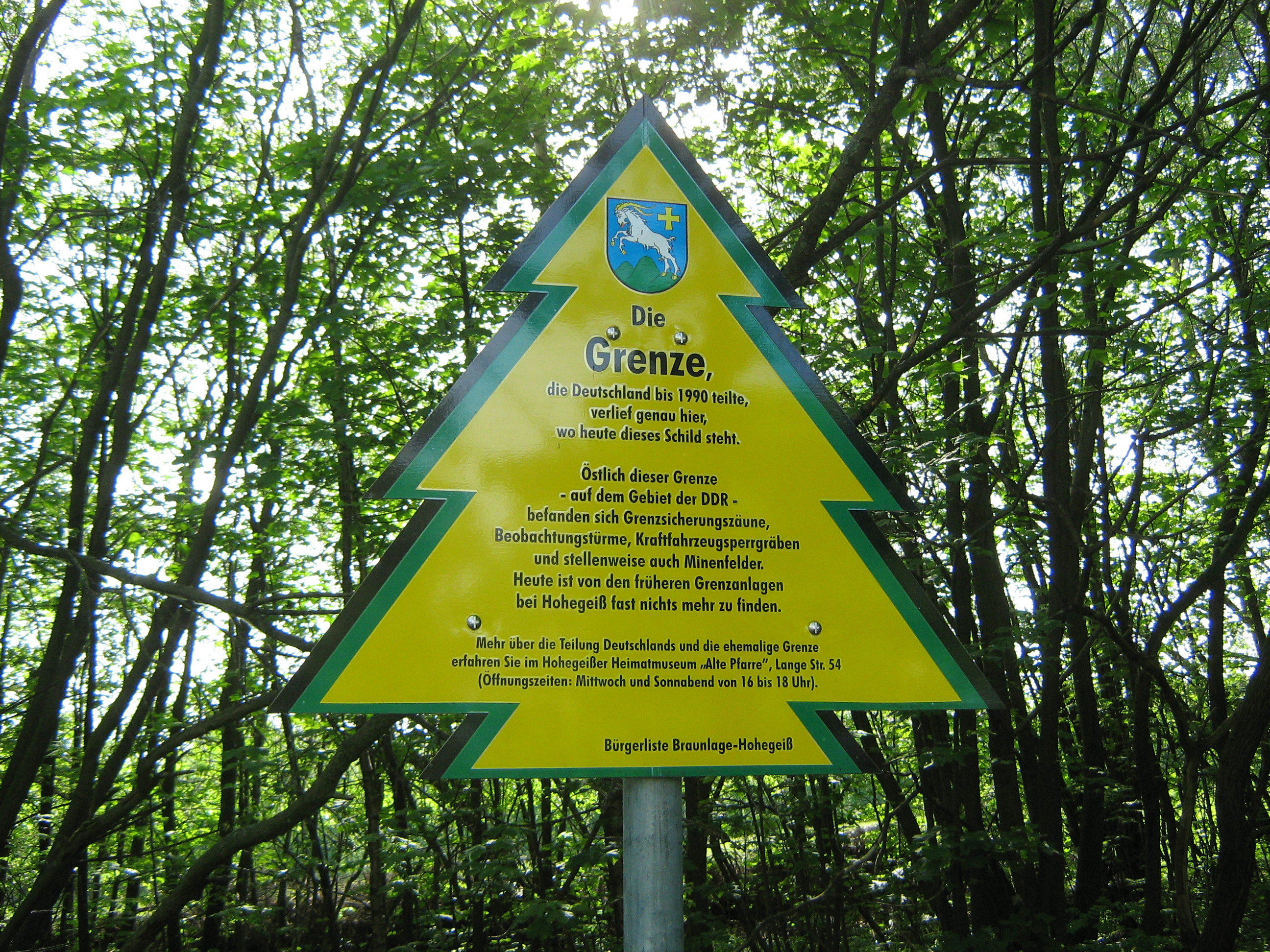 Hohegeiß, Information board of the type Dennert Fir Tree about the Inner German border